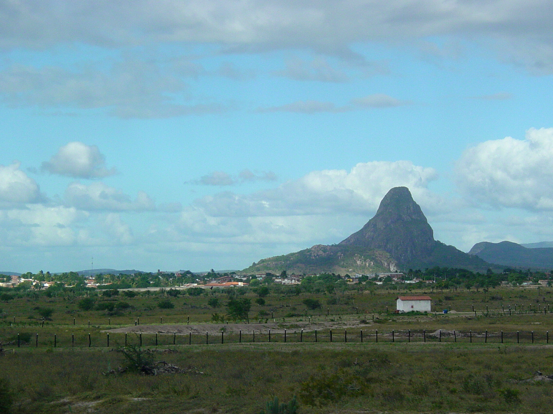 Bahia scenery en route to Salvador, Brazil. Taken out a bus window. July 2006.